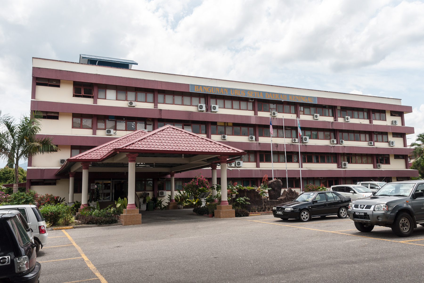 Keningau, Sabah: District Office with Batu Sumpah Keningau (Keningau Oath Stone)